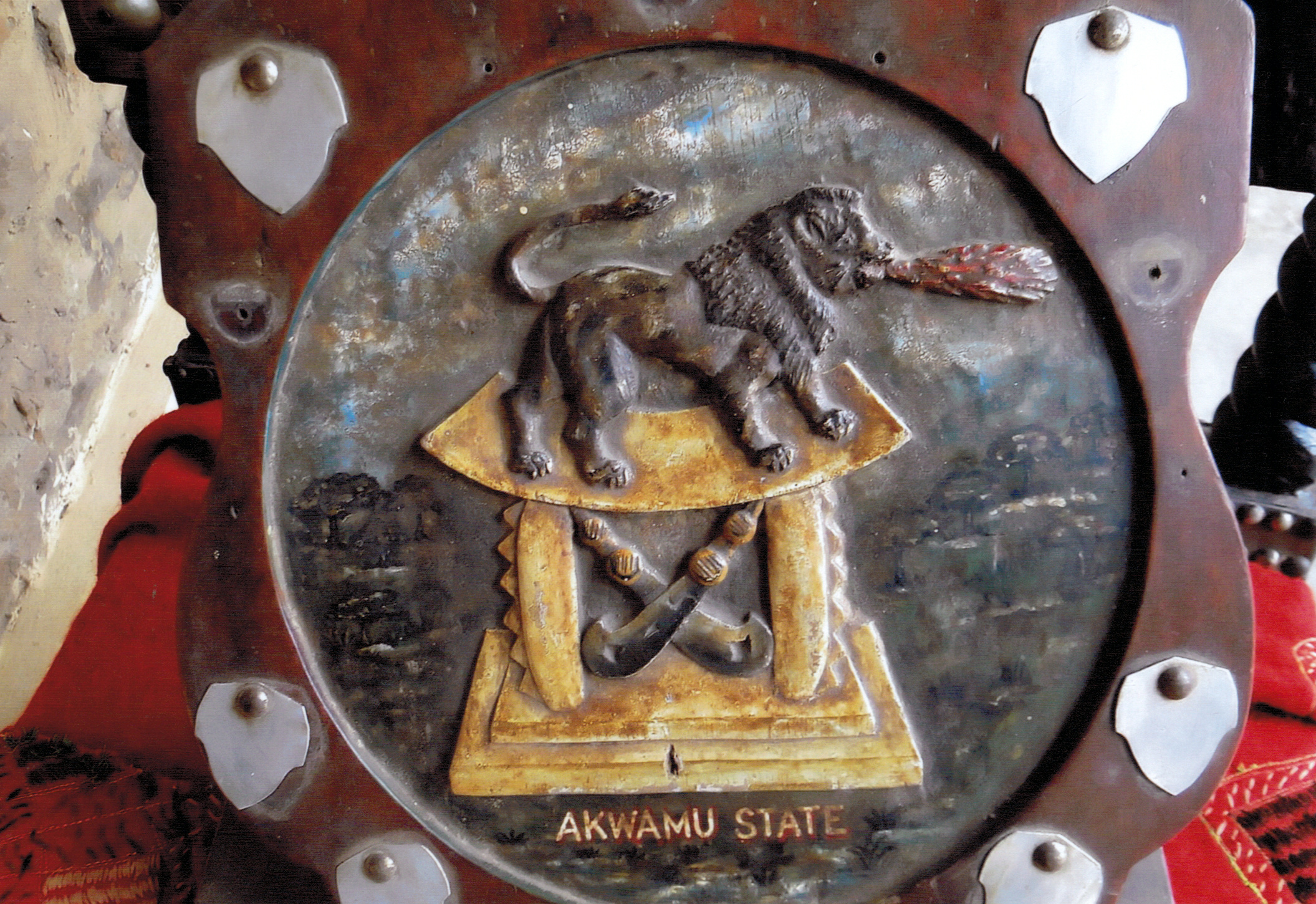 Akwamu National Emblem